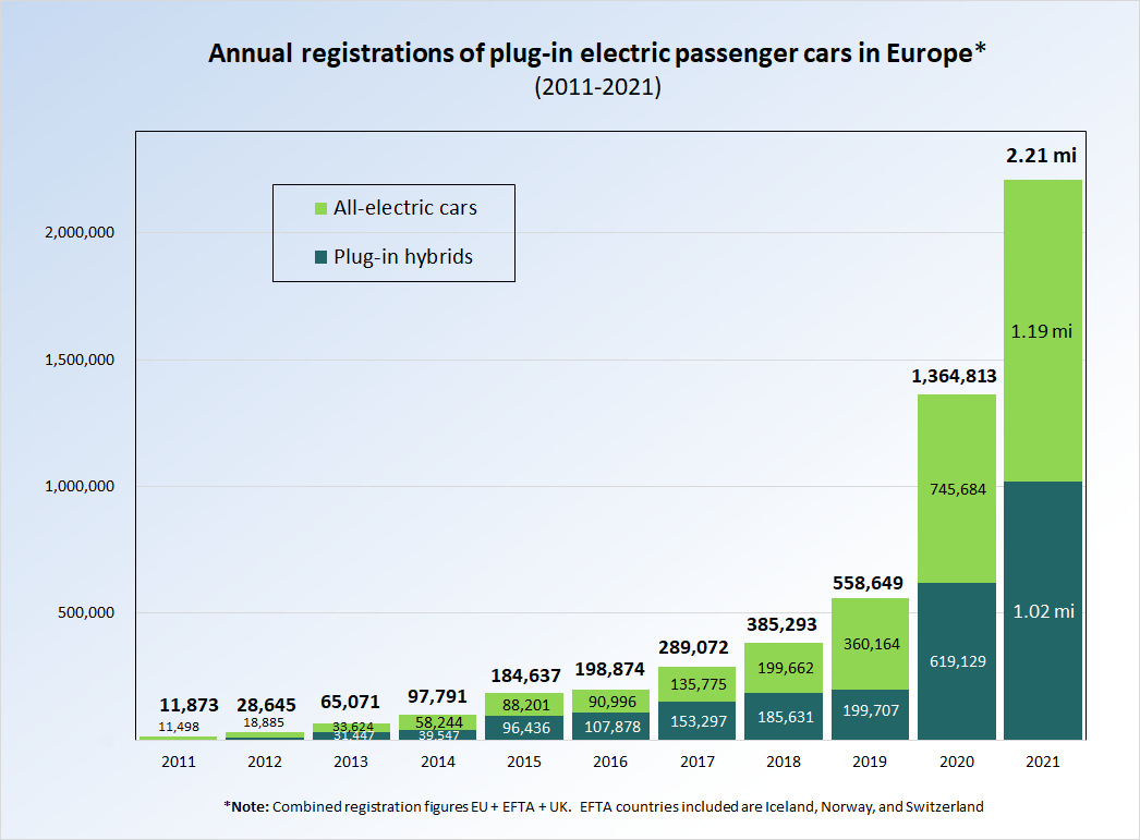 Evolution of annual registrations of plug-in electric passenger cars in Europe showing the type of power train (battery electric or plug-in hybrid) between 2011 and 2019. Sources: European Automobile Manufacturers Association (ACEA): New Passenger Car Registrations by Alternative Fuel Type (EU + EFTA + UK) 2019-2018 2017 2016 2015 2014-2013 Joint Research Centre (JRC), the European Commission: Electric vehicles in Europe from 2010 to 2017: is full-scale commercialisation beginning? See Figure 4. pp. 8 for 2012-2010